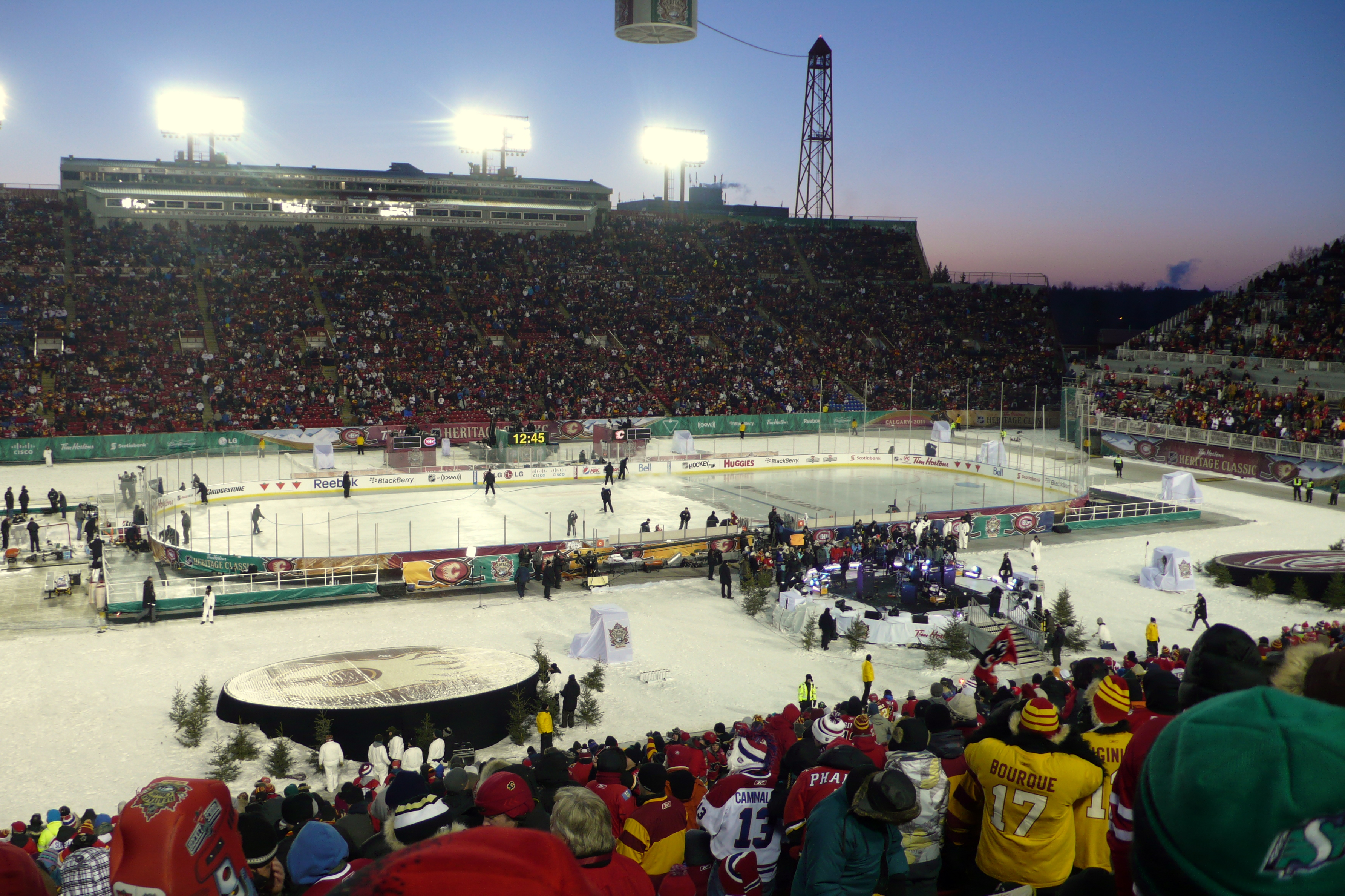 resurfacing the ice